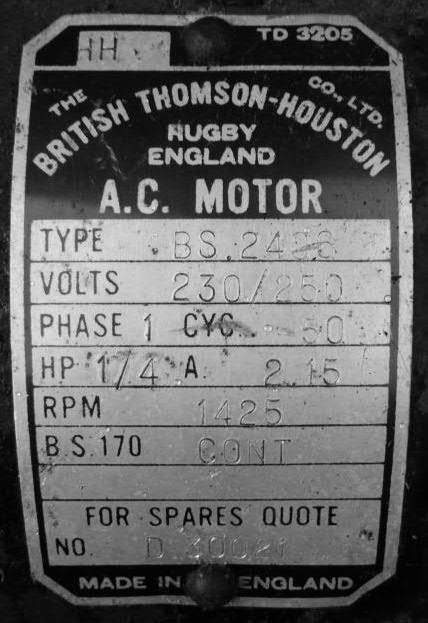 Dataplate attached to a motor as supplied to a domestic appliance manufacturer in the UK, showing the correct name format "The British Thomson-Houston Co., Ltd"